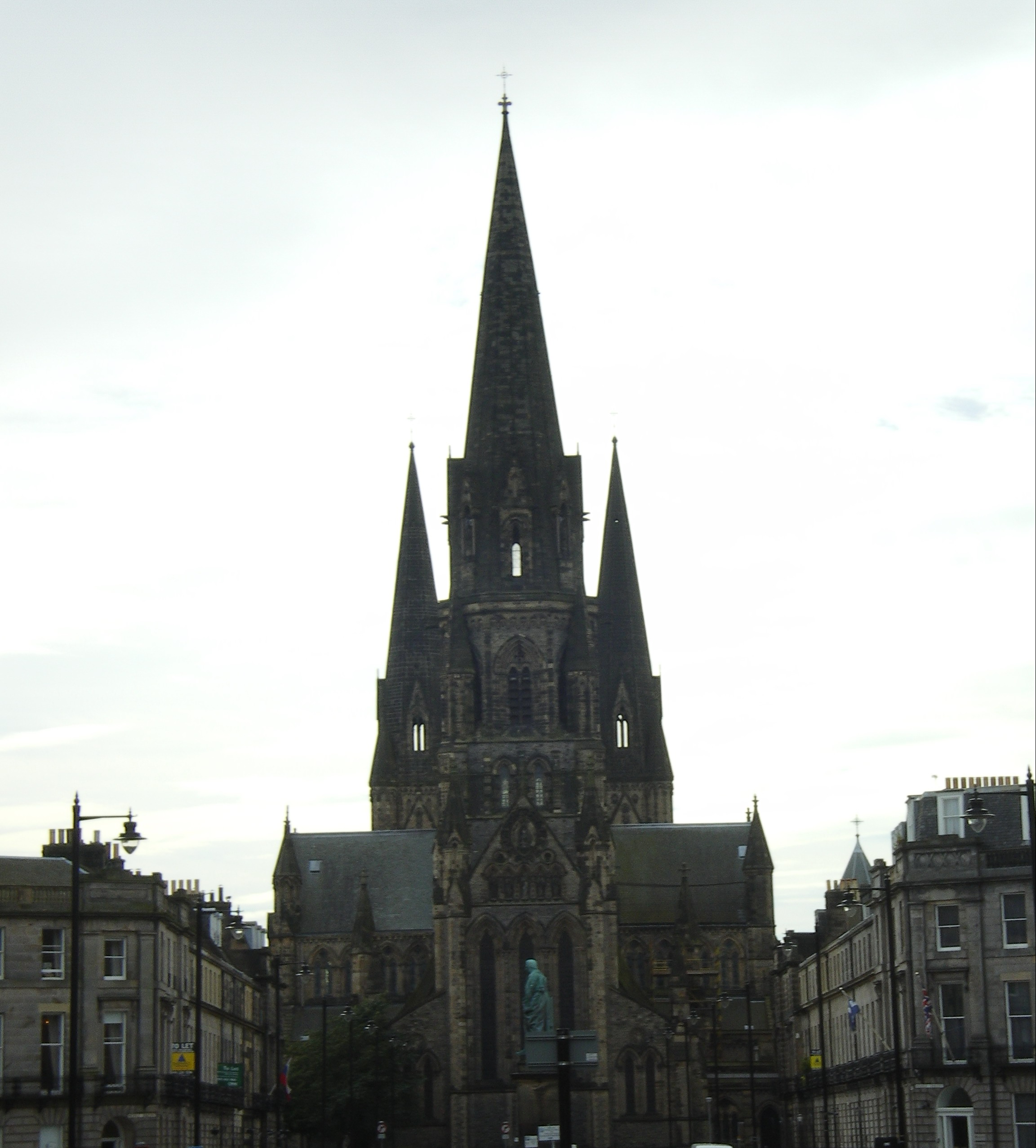 St Mary's Cathedral, Edinburgh (Episcopal)